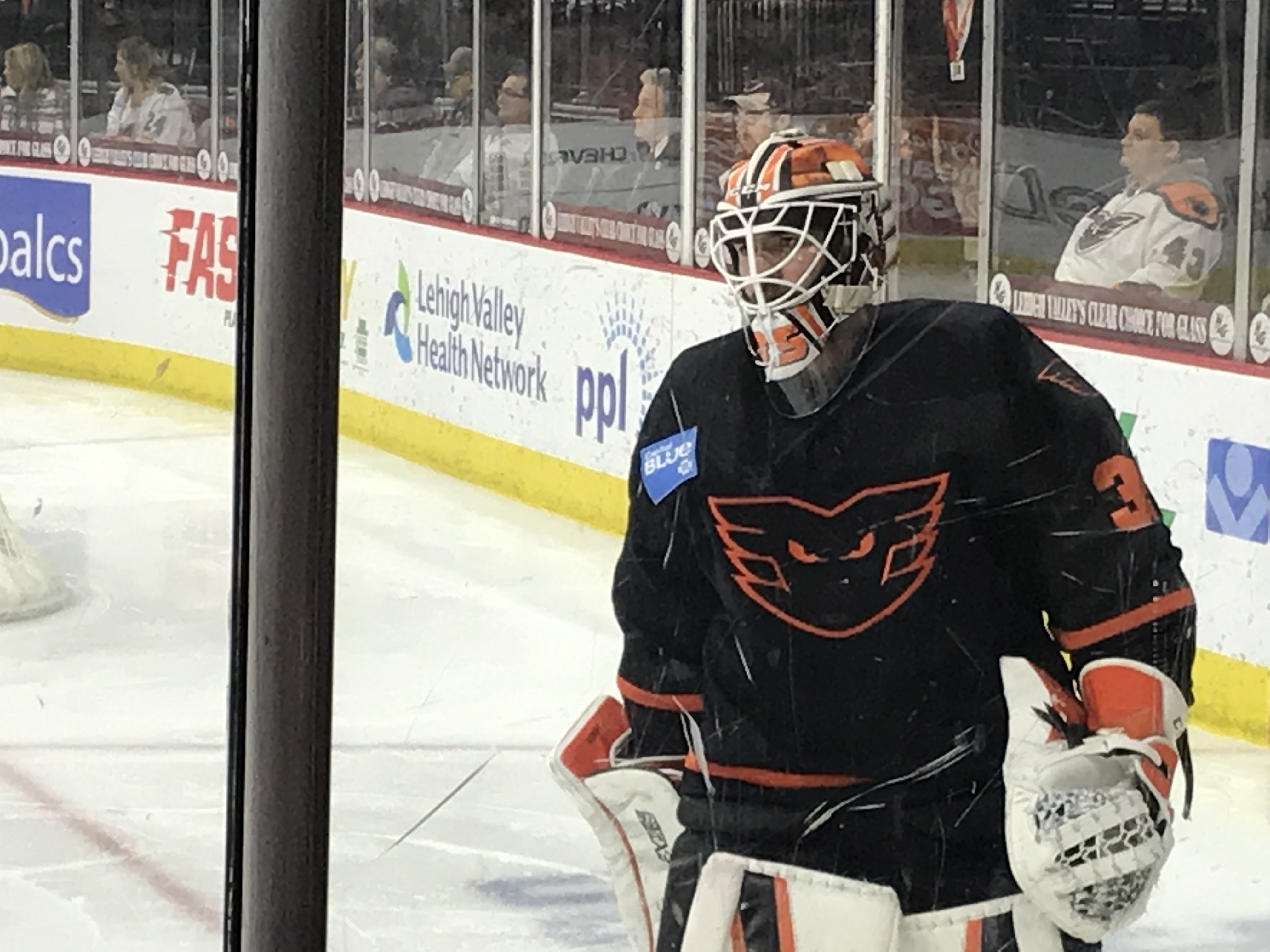 Jean-François Bérubéa goaltender with the Lehigh Valley Phantoms ice hockey team, at the PPL Center in Allentown, Pennsylvania, on December 14, 2019.